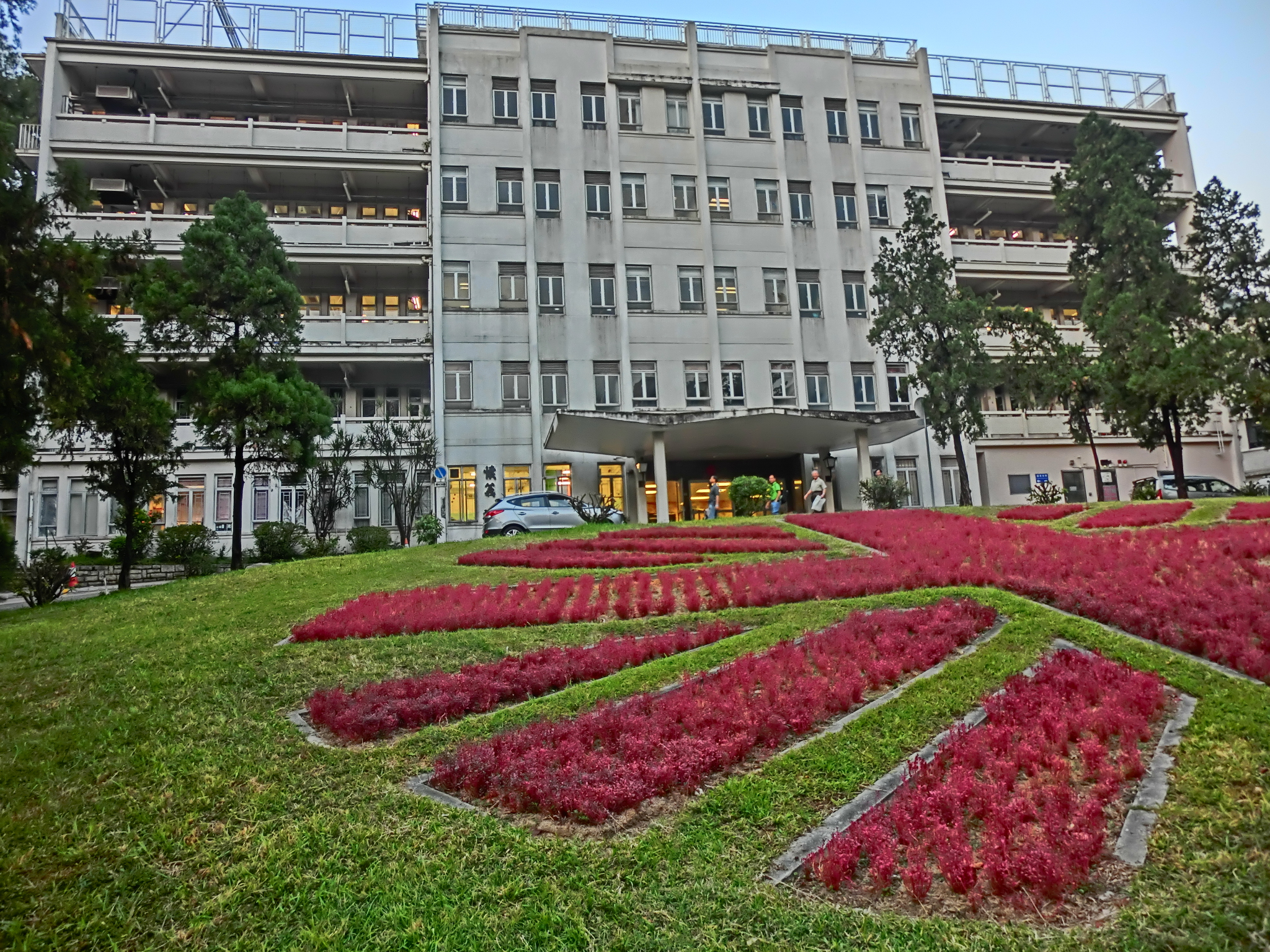 長沙灣 明愛醫院, Caritas Medical Centre, Cheung Sha Wan, Hong Kong